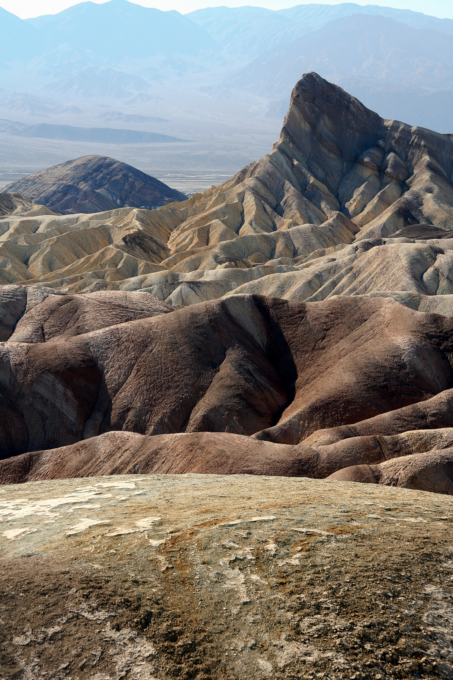 Zabriskie Point, Death Valley National Park, California, USA